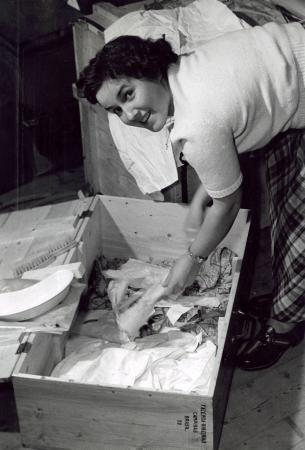 Spaarnestad Photo/SFA002007263 De Nederlandse emigrante naar Brazilië mevrouw van Engelen pakt haar spullen in een verhuiskist. Nederland, Alphen, 8 januari 1950.